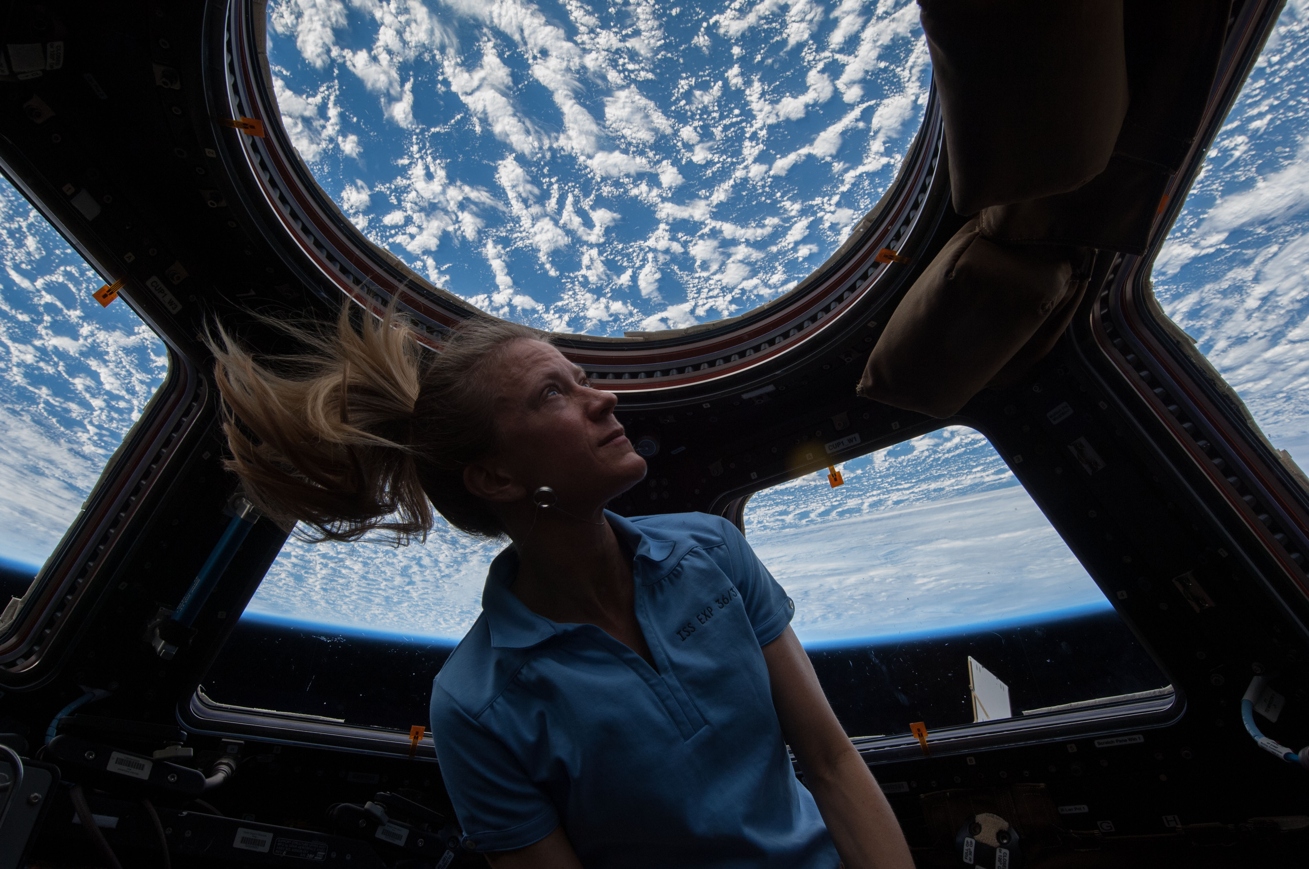 NASA astronaut Karen Nyberg, Expedition 37 flight engineer, enjoys the view of Earth from the windows in the Cupola of the International Space Station. A blue and white part of Earth is visible through the windows.